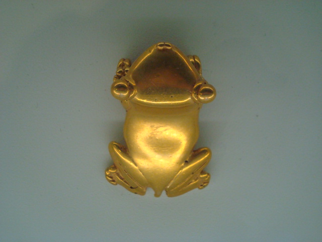 Frog shapped pendant. Central-Caribbean Region of Costa Rica. 700-1550 AD. Museum of Pre-Columbian Gold, San Jose, Costa Rica